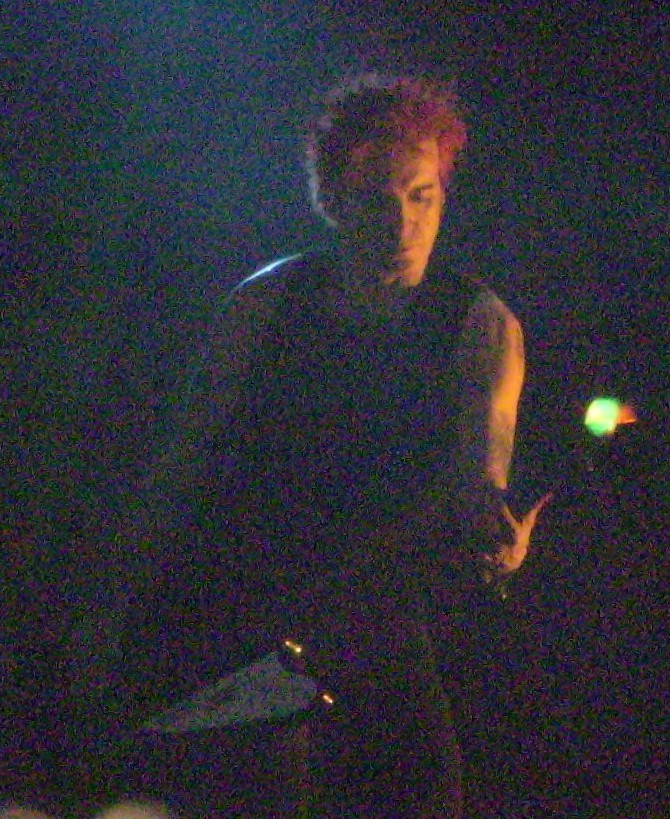 Simon Gallup of The Cure live in Rome